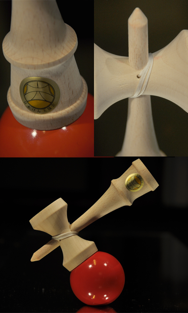 Detailed picture of a red Ozoora kendama. The green mark says that it is approved by The Japanese Kendama Association, which sets the standard for competition kendamas. This kendama is made by the Yamagata Koubou factory from the Yamagata prefecture in Japan.